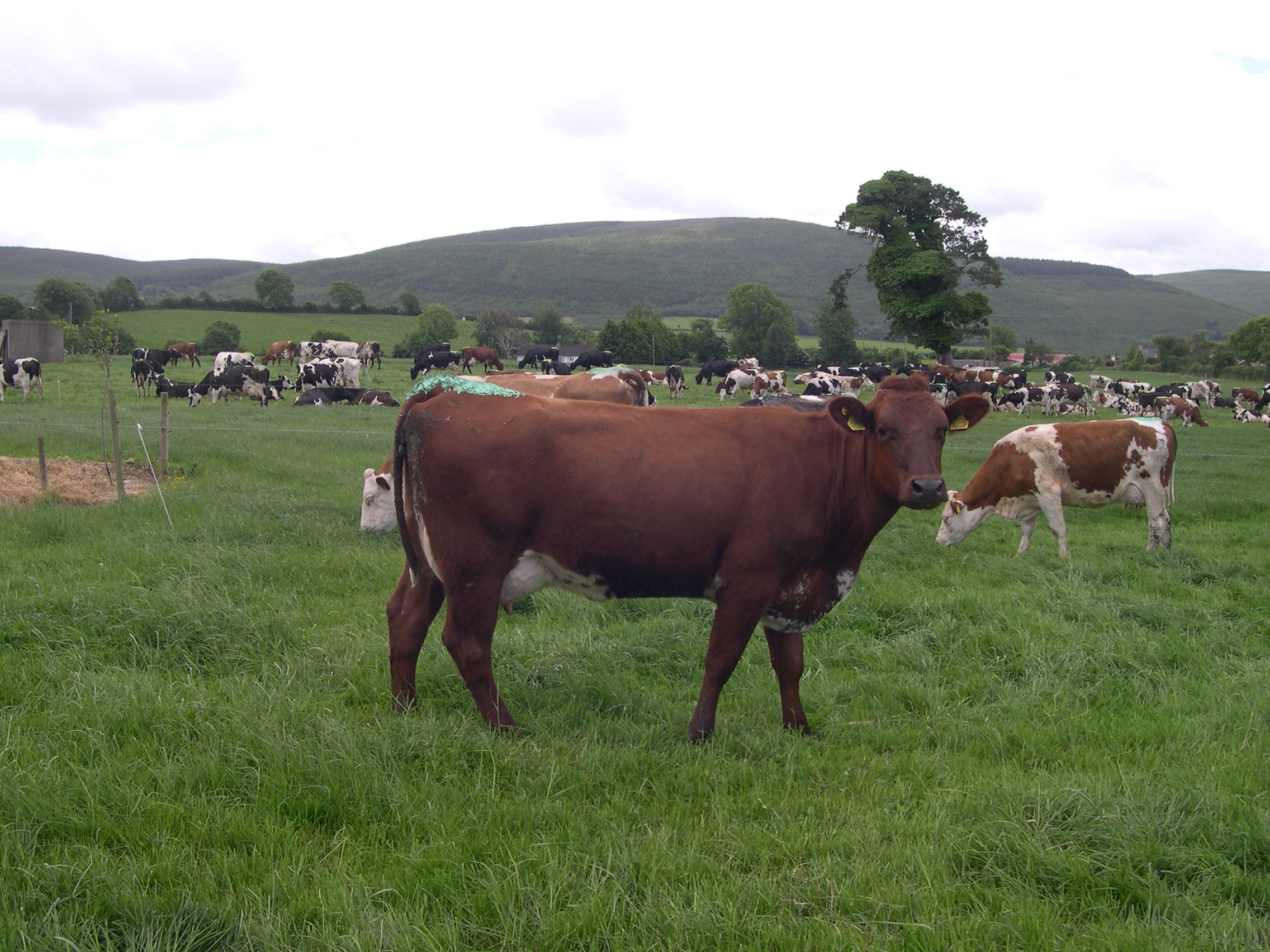 Crossbred Norwegian Red Cow on pasture